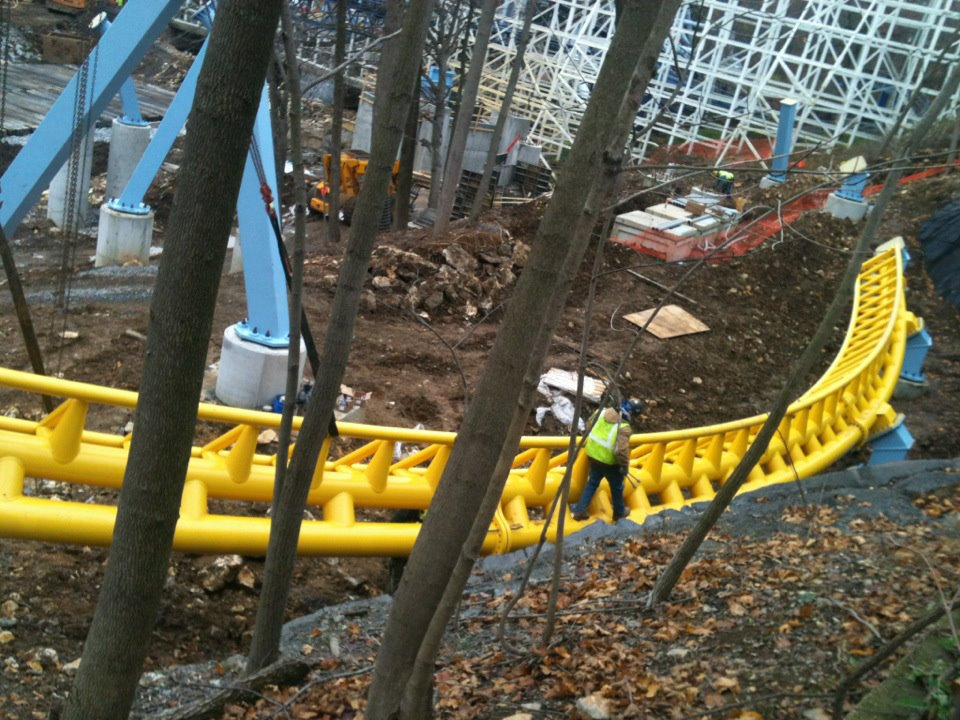 A track piece of Skyrush being installed.